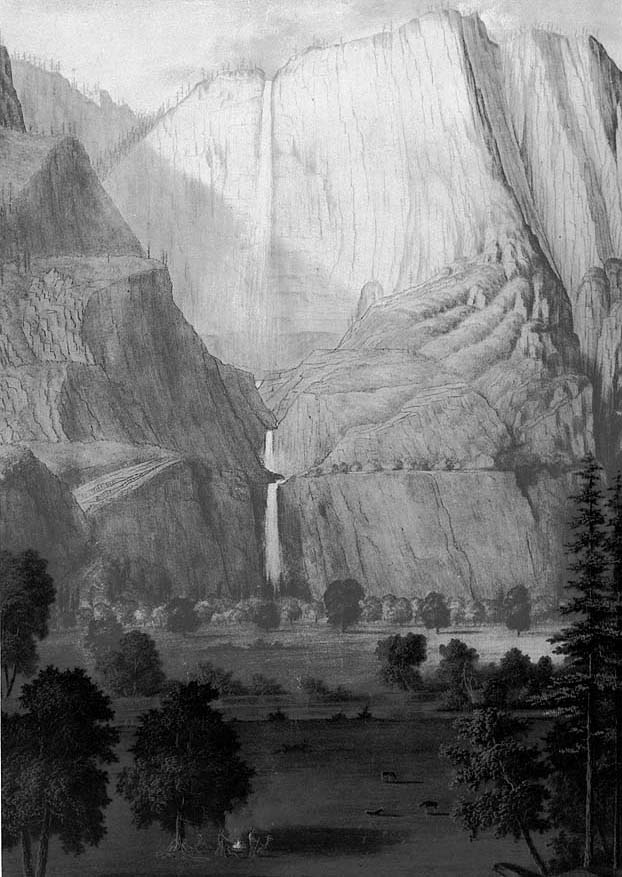 This drawing by Thomas Ayres provided the American public with its first glimpse of Yosemite Falls in 1855, and helped to create the interest in Yosemite Valley that led to its protection. In June 1855, James Mason Hutchings organized a group to visit Yosemite Valley. For this journey Hutchings hired the artist Thomas Ayres to draw the sights of the Valley in the hope that "this wonderful valley will attract the lovers of the beautiful from all parts of the world; and be as famed as Niagara, for its wild sublimity, and magnificent scenery." This particular drawing, The High Falls , was the fifth drawing Ayres made of the Valley, but it was the first to be published. Hutchings had a lithograph made from this drawing in October of 1855. The High Falls and other Ayres drawings were also used in the first issue of Hutchings' California Magazine in July 1856.